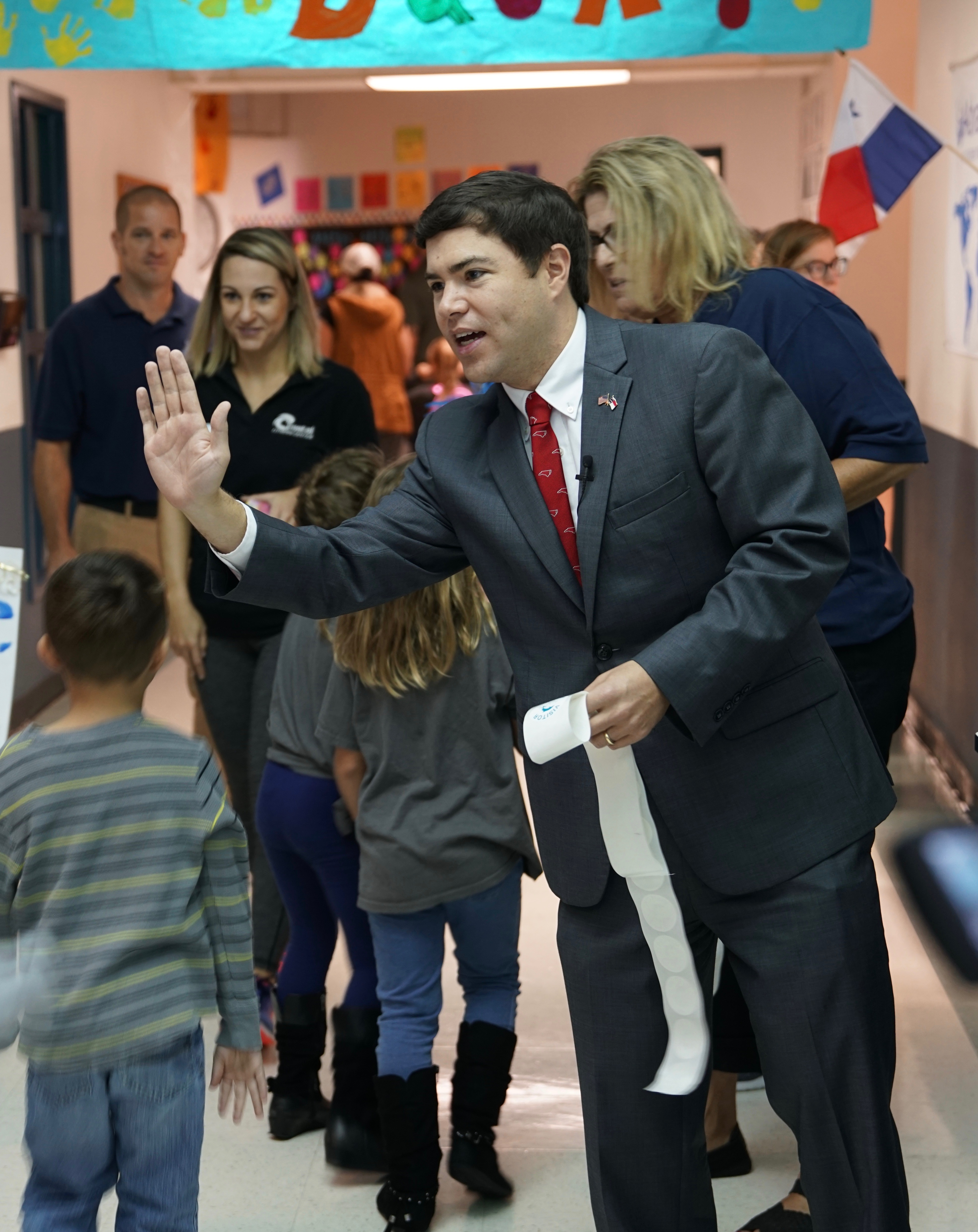 Mark Johnson greets students in Onslow County